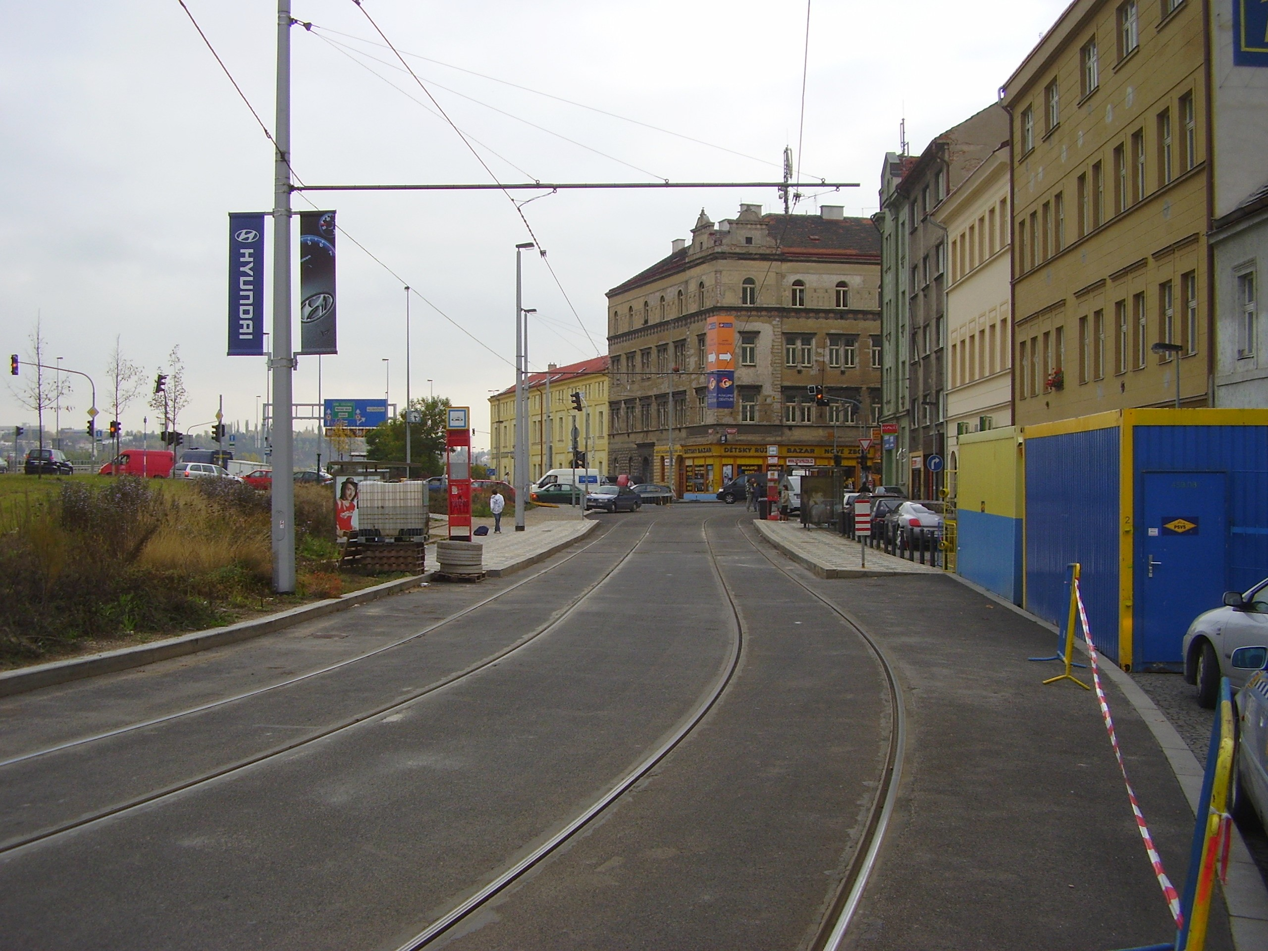 Tram track Radlice, Křížová tram stop